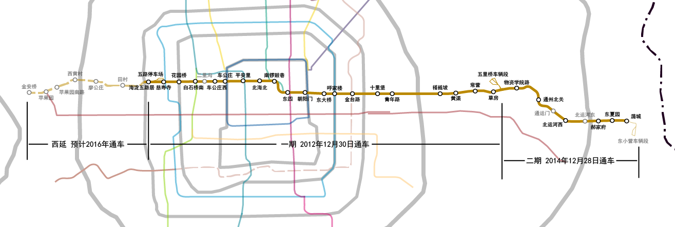 Map of Line 6, Beijing Subway. It's drawn to the scale. The dashed part is under construction.